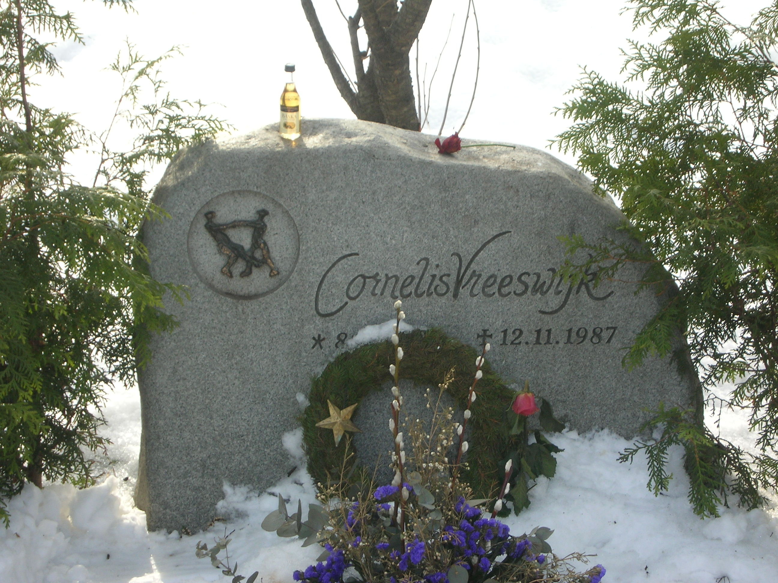 The tombstone of Cornelis Vreeswijk at Katarina kyrka in Stockholm, Sweden. On top of the stone is a 50 ml bottle of Bäska droppar, a bitter.